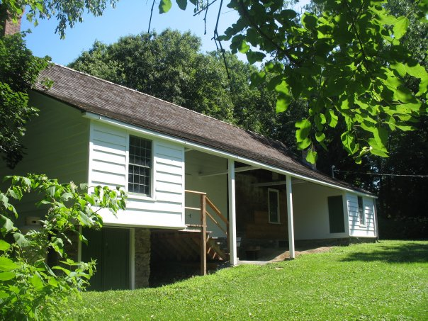 The Old Studio at Cedar Grove served as Thomas Cole's primary studio between 1839 and 1846. Here he created a number of well-known works, notably his 'Voyage of Life' series.